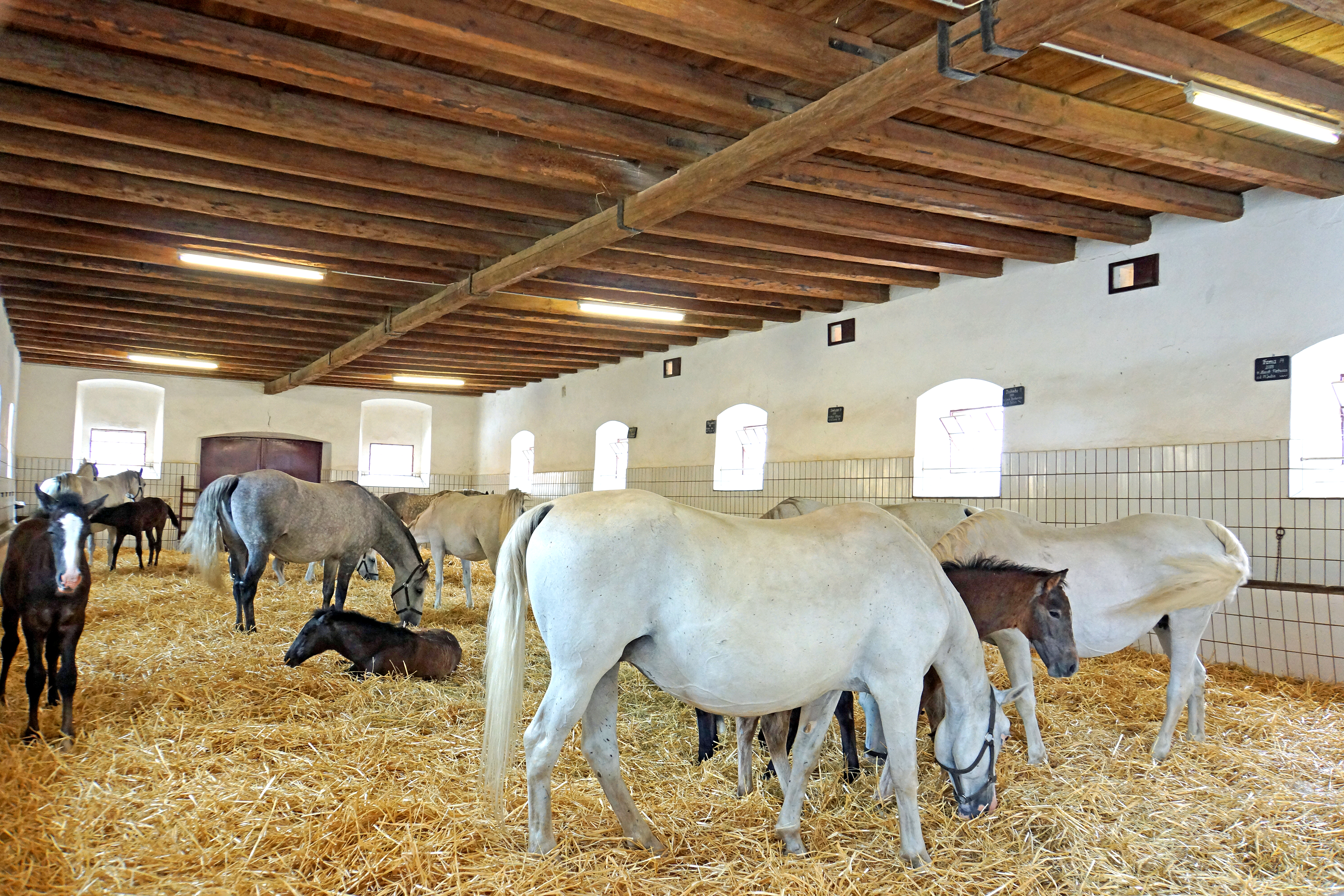 Lipizzan mares and foals. The Piber Federal Stud is 555 hectares in size and approximately 250 horses are kept there, including 70 broodmares. Only stallions from the Spanish Riding School are used as breeding stallions, and all six classic stallion bloodline families are used. The Piber Federal Stud Farm is dedicated to the breeding of Lipizzan horses, located at the village of Piber. It was founded in 1798, began breeding Lipizzan horses in 1920, and today is the primary breeding farm that produces the stallions used by the Spanish Riding School, where the best stallions of each generation are bred and brought for training and later public performance. One of Piber’s major objectives is "to uphold a substantial part of Austria’s cultural heritage and to preserve one of the best and most beautiful horse breeds in its original form." The Lipizzan breed as a whole, suffered a setback when a viral epidemic hit the Piber Stud in 1983. Forty horses and eight percent of the expected foal crop were lost. Since then, the population at the farm has increased, with 100 mares as of 1994 and a foal crop of 56 born in 1993. In 1994, the pregnancy rate increased from 27% to 82% as the result of a new veterinary center.